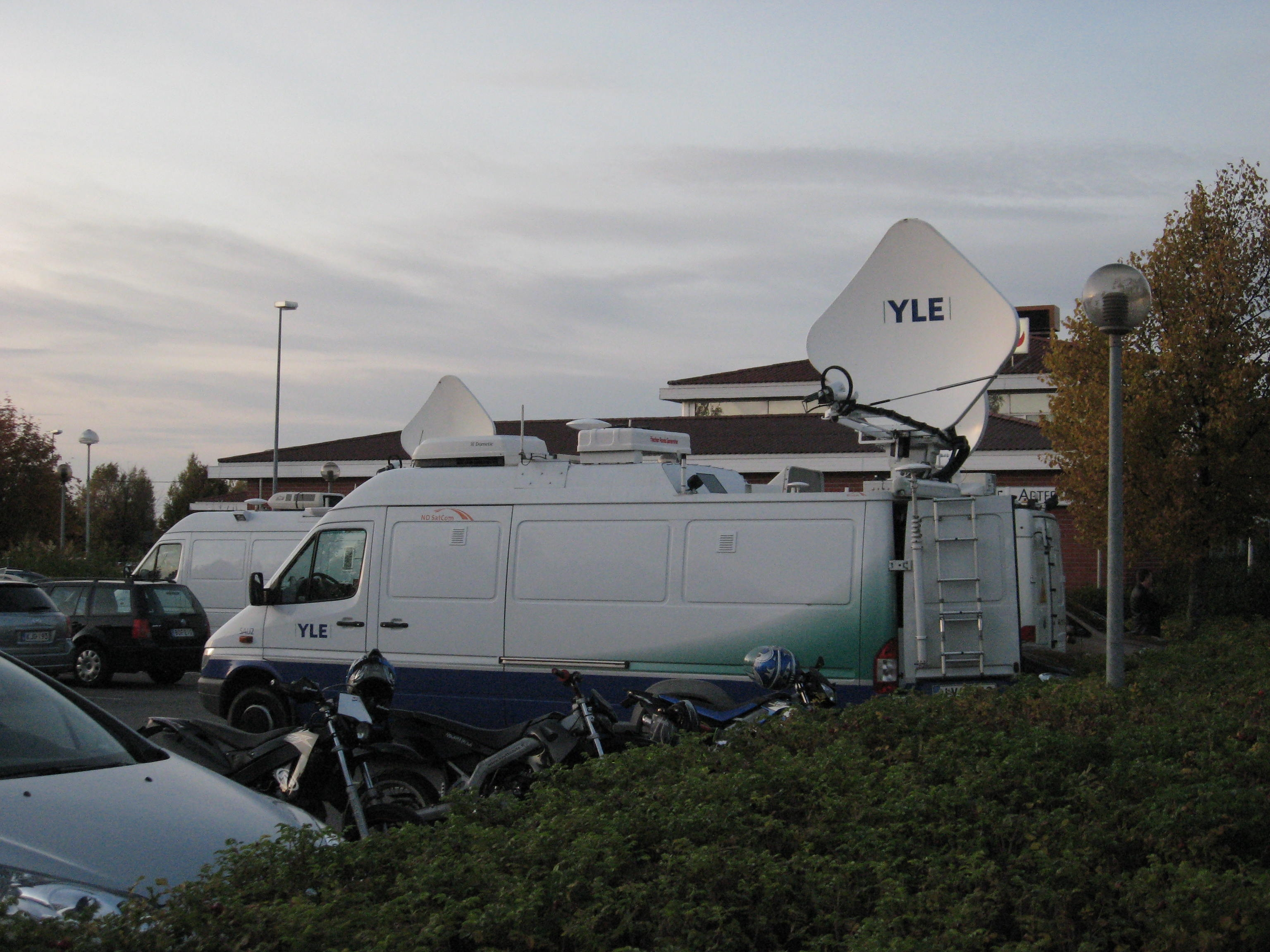 Finland's national broadcasting company Yle's car in Kauhajoki market place one day after shooting incident. Market place locate beside the shooting place.